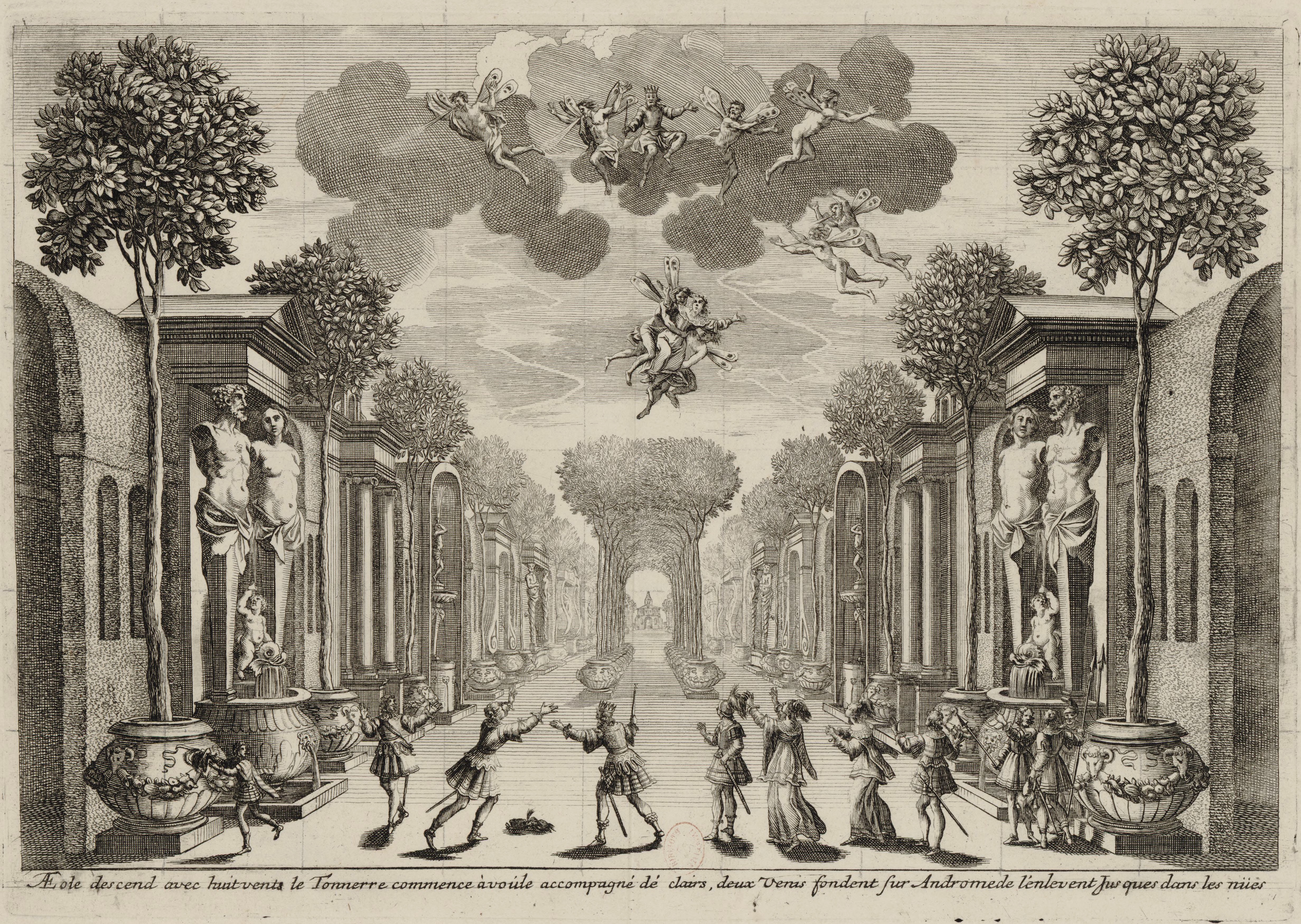 Set design for Act 2 of Pierre Corneille's Andromède as first performed on 1 February 1650 by the Troupe Royale at the Petit-Bourbon in Paris